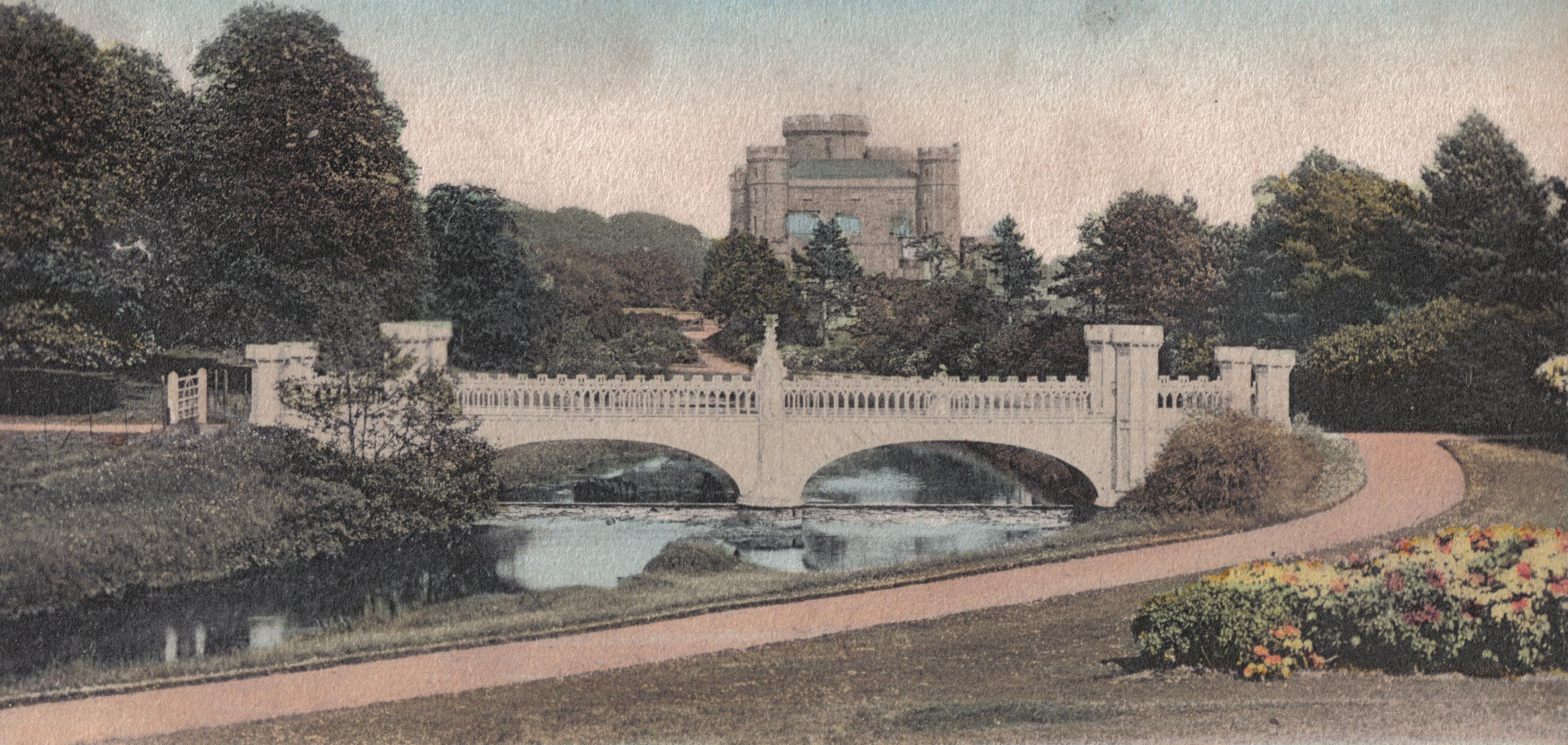 Eglinton Tournament Bridge in 1905, Irvine, Ayrshire, Scotland